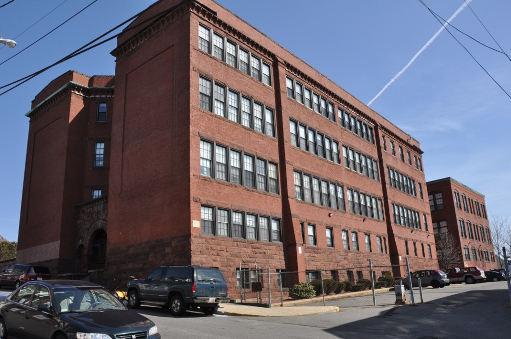 The former home of the English High School in Lynn, Massachusetts, now renovated into residences.